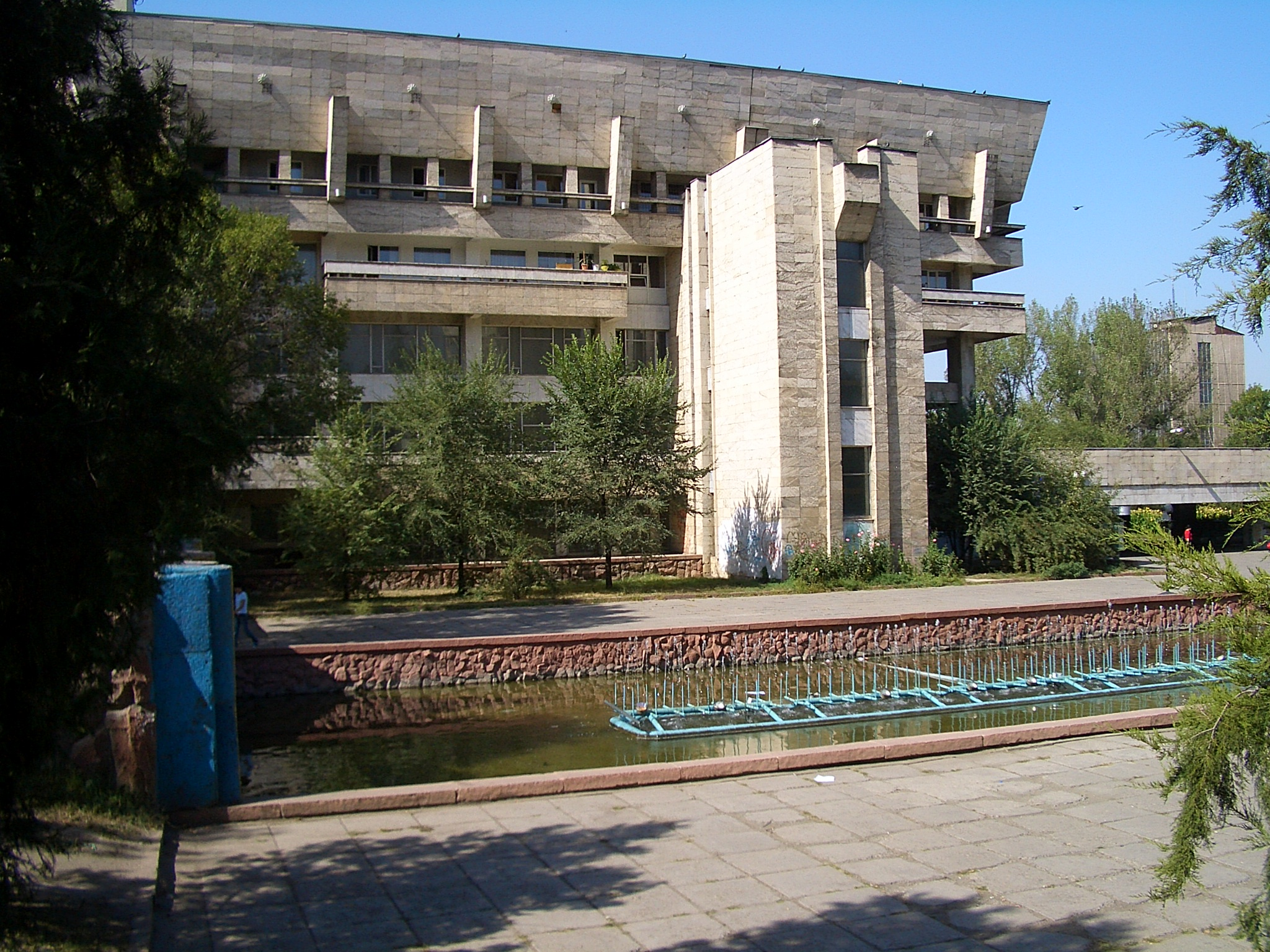 N.Sats Russian Theater for Children and Youth, on Almata's west side